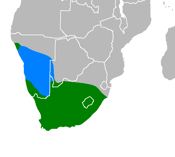 Distribution of the Black Harrier (Circus maurus). Based on: James Ferguson-Lees, David A. Christie: Raptors of the World. Houghton Mifflin Harcourt, 2001, p. 145 Species factsheet: Circus maurus. BirdLife International, 2010. Robert E. Simmons: Harriers of the World. Their Behaviour and Ecology. Oxford University Press, New York 2000. ISBN 0-19-854964-4, p. 13.